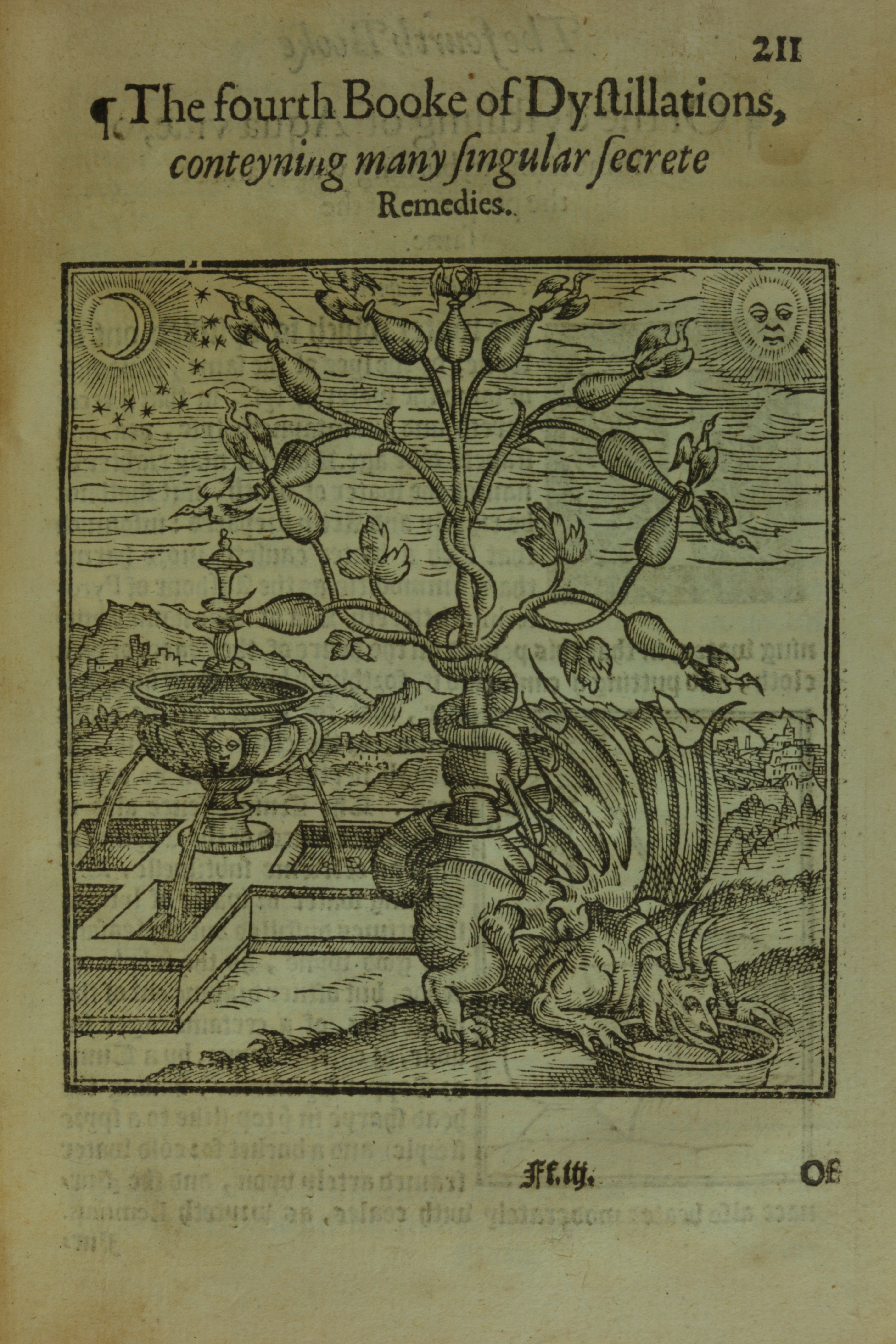 The fourth Booke of Dystillations, conteyning many singular secrete Remedies, page 211, from The newe iewell of health : wherein is contayned the most excellent secretes of phisicke and philosophie, deuided into fower bookes, in the which are the best approued remedies for the diseases as well inwarde as outwarde, of all the partes of mans bodie : treating very amplye of all dystillations of waters, of oyles, balmes, quintessences, with the extraction of artificiall saltes, the vse and preparation of antimonie, and potable gold / gathered out of the best and most approved authors, by that excellent Doctor Gesnerus ; also the pictures, and maner to make the vessels, furnaces, and other instrumentes there unto belonging ; faithfully corrected and published in Englishe, by George Baker ... by Conrad Gessner, 1516-1565. Translated by George Baker. Printed at London : by Henrie Denham, 1576.